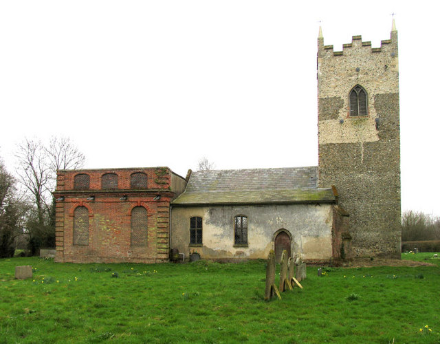 All Saints, Hethel, Norfolk, Great Britain